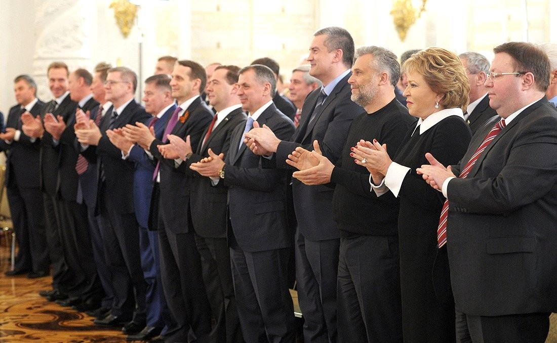 Naryshkin, Medvedev, Konstantinov, Aksyonov, Chaly and Matviyenko